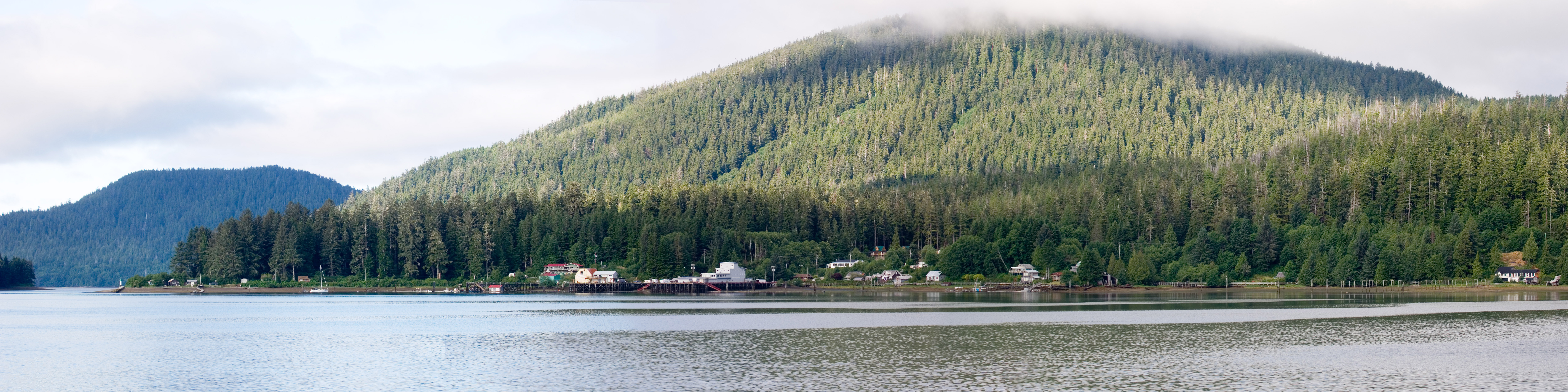 I own this picture (I took it) and I offer this image under the Attribution ShareAlike 2.5 license. See source image (I own it) at